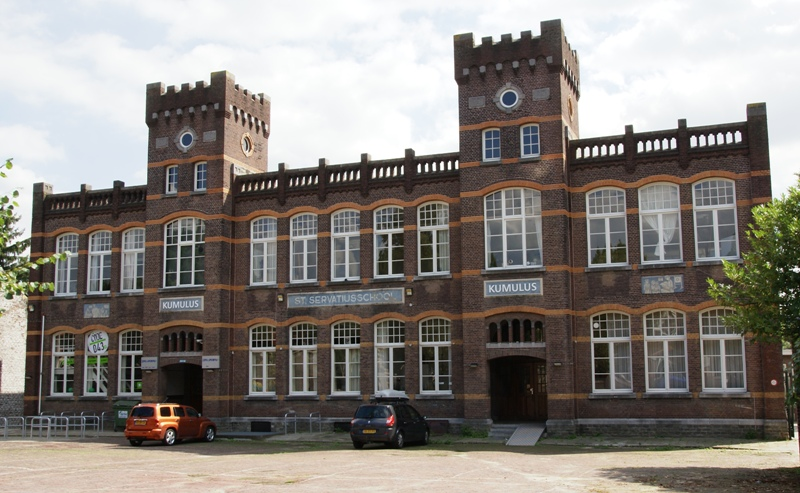 National monument 506646 - Herbenusstraat 89, Maastricht, The Netherlands